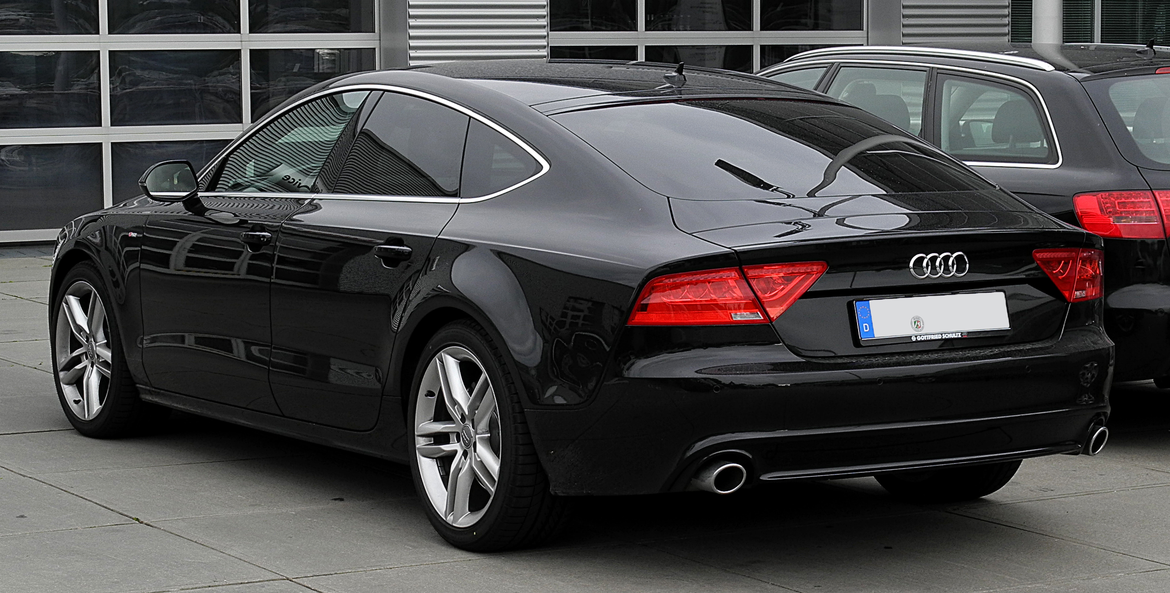 Audi A7 Sportback S-line